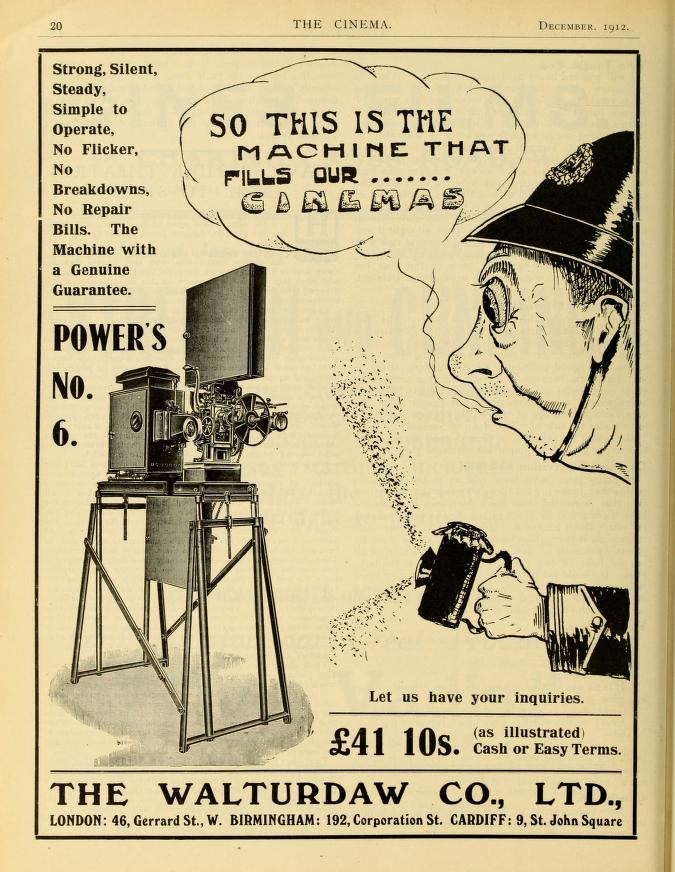 Power's No. 6 - Walturdaw Company Limited, 1912 Title: Cinema News and Property Gazette (1912) Year: 1912 (1910s) Authors: Cinema News Subjects: Motion Pictures Film Industry Trade Magazine nyarc-museumofmodernart Publisher: London Text Appearing Before Image: ion, and unconvincing inmotive. The players, too, were third rate. But even with thesedisadvantages the picture theatres acquired big patronage. Thenarose the army of scenario writers, people who were competent towrite first cla-s plots, and with it a demand for first rate actors andactresses to make these plots live. First class theatres sprang up in every direction ; plush seats,orchestras, uniformed commissionaires ; managers in eveningdres*. Every street is now dazzling with the electric light of apicture theatre, east and)west alike. Added to that there is no waiting. Yes, the picture theatre has come to stay, notwithstanding thegroans of publicans, Stiggins, and music hall managers. I haveonly glided over the salient facts of the subject, and the inexorableeditor has limited my space. Thus writes Patrick Glynn in ThePictures. 20 THE CINEMA. December. 1912. Strong, Silent,Steady,Simple toOperate,No Flicker,No Breakdowns,No RepairBills. TheMachine witha GenuineGuarantee. POWERSNO. Text Appearing After Image: £41 10s. (as illustrated)Cash or Easy Terms. THE WALTURDAW CO., LTD., LONDON: 46, Gerrard St., W. BIRMINGHAM: 192, Corporation St. CARDIFF: 9, St. John Square I December, 1912. THE CINEMA. 21 CLOSED DOORS BOLTED AND BARRED. By FRANK OGDEN SMITH.